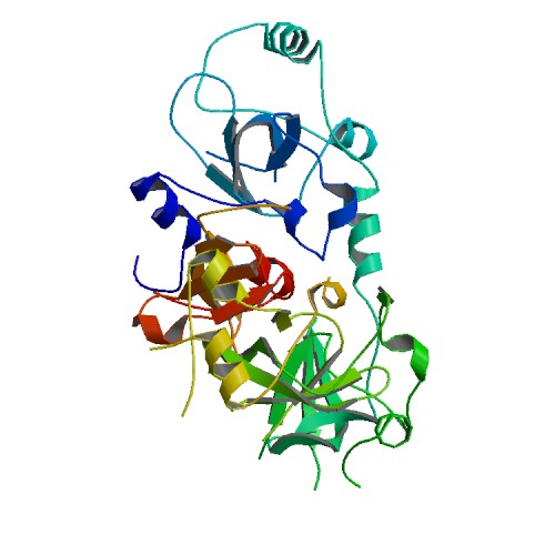 Crystal structure of L3MBTL2